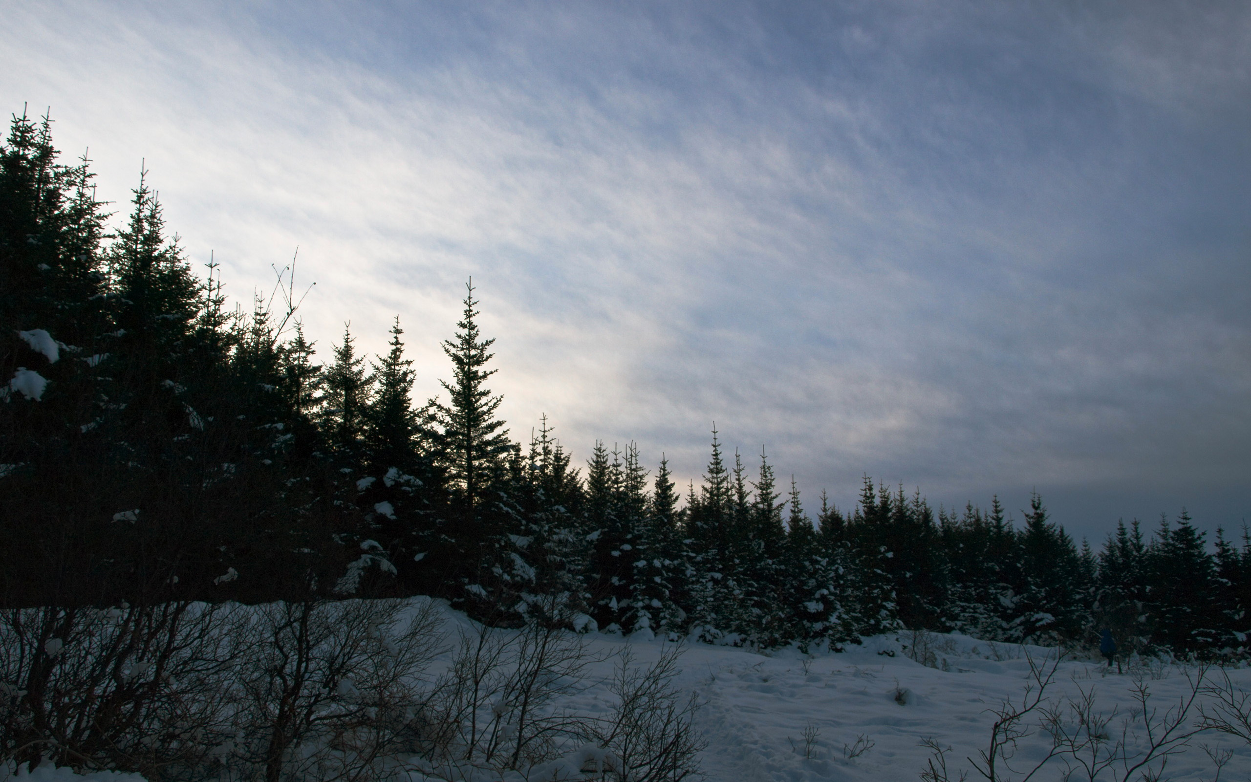 Picea sitchensis plantation, Rauðavatn, Iceland